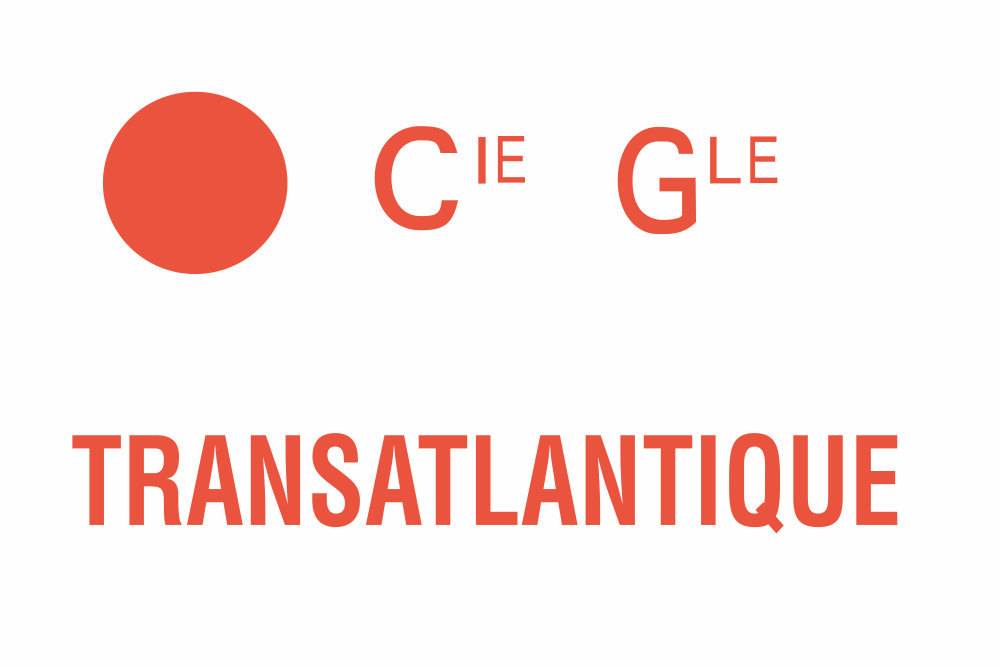 Logo of the Compangnie Generale Transatlantique